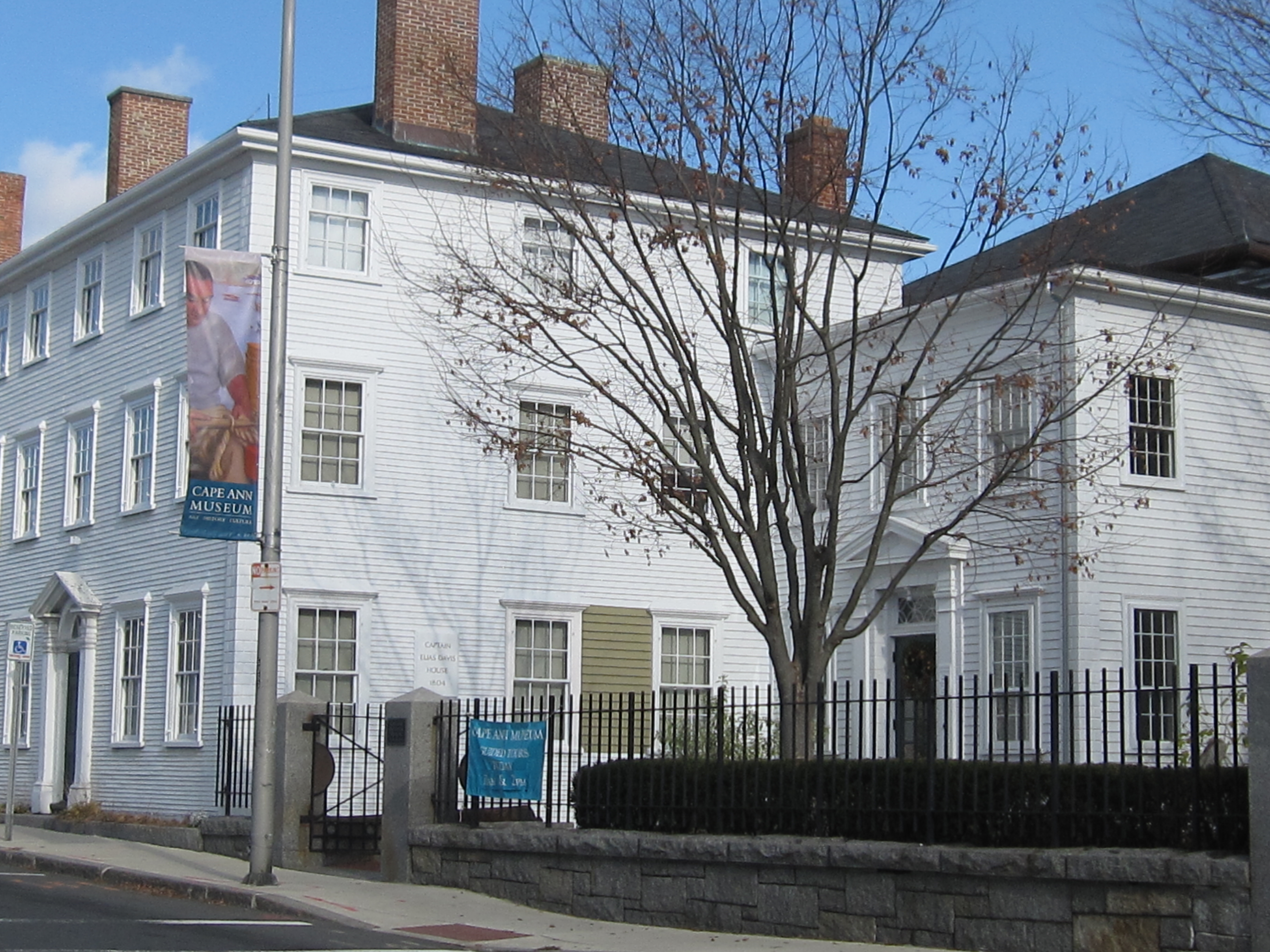 Cape Ann Museum, Pleasant Street, Gloucester, Massachusetts, USA